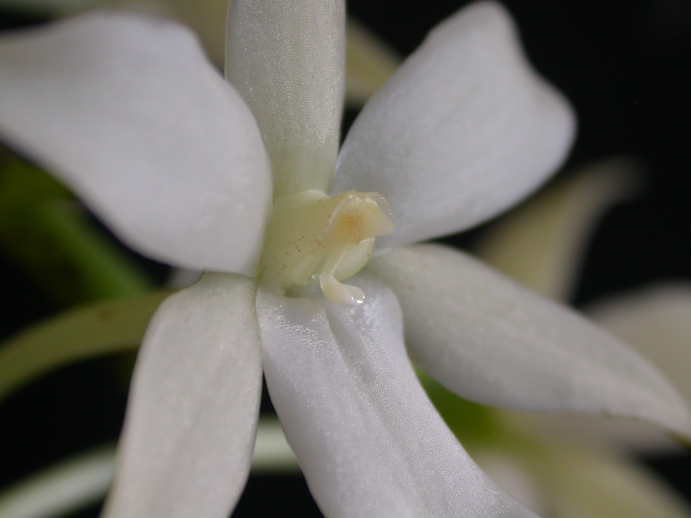 Aerangis articulata